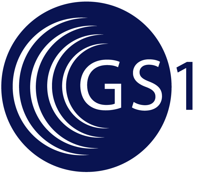 GS1 Logo